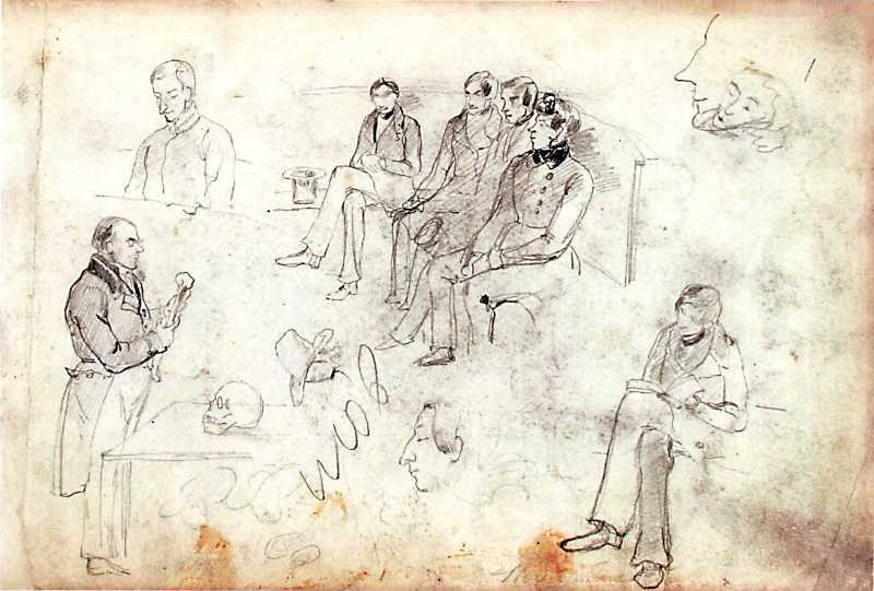 Pencil drawing of osteology lesson by prof. Buyalskii in St. Petersburg university. Drawing by Taras Shevchenko, 1841